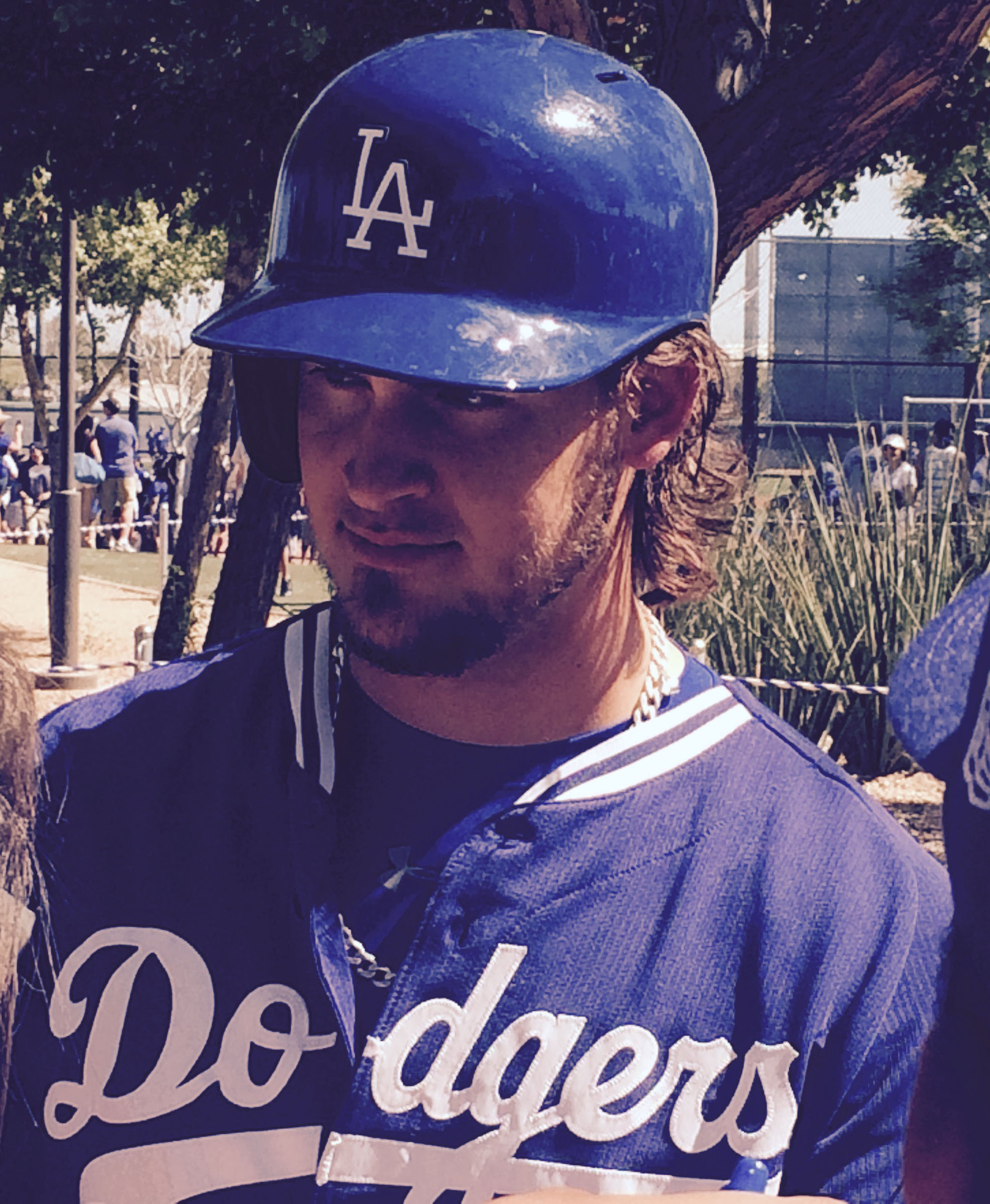 Dodgers catcher Yasmani Grandal at Spring Training 2015